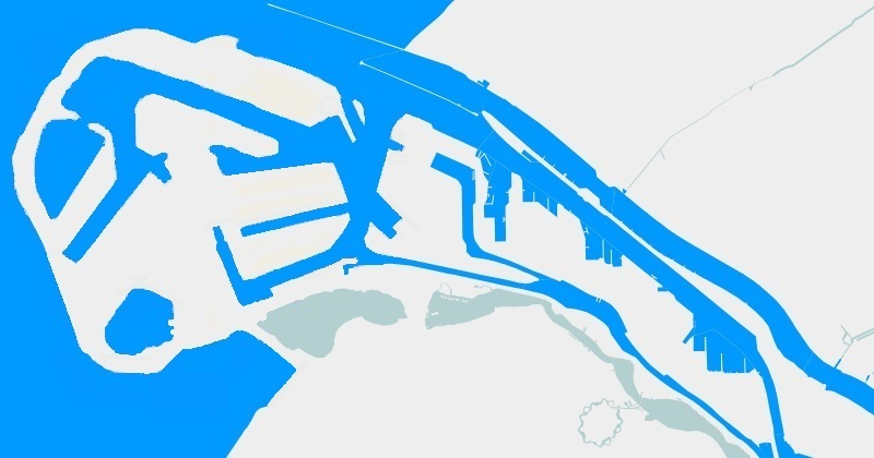 Map of Maasvlakte and Europoort northern part of the existing map "OSM - Europoort en Maasvlakte.svg"